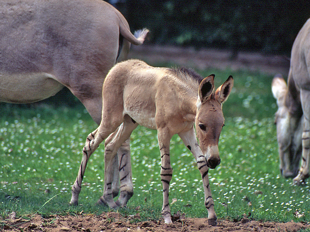 Equus africanus somalicus (Noack) 1884.